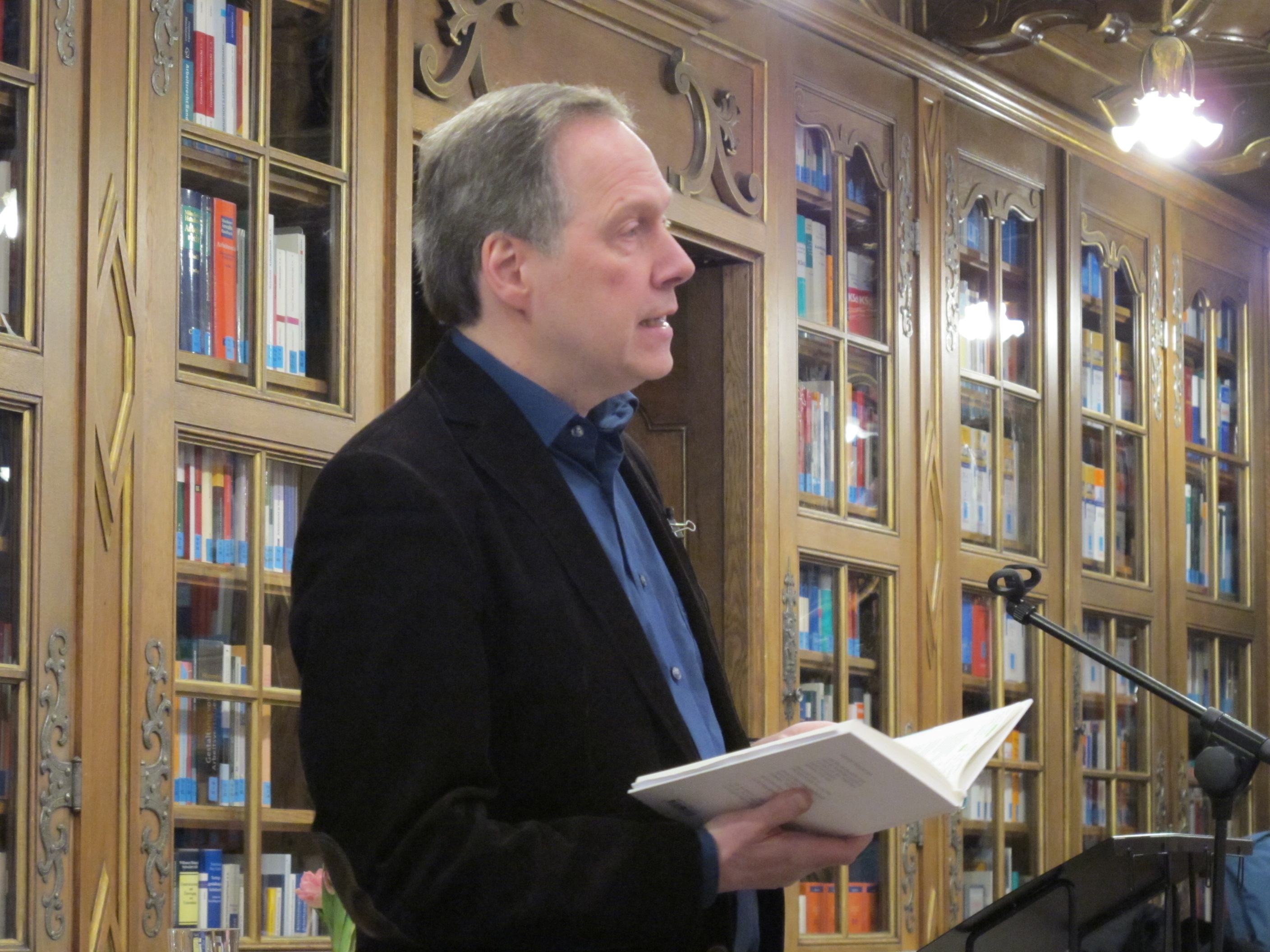 Ludwig Steinherr at a reading in the Munich Townhall 2016